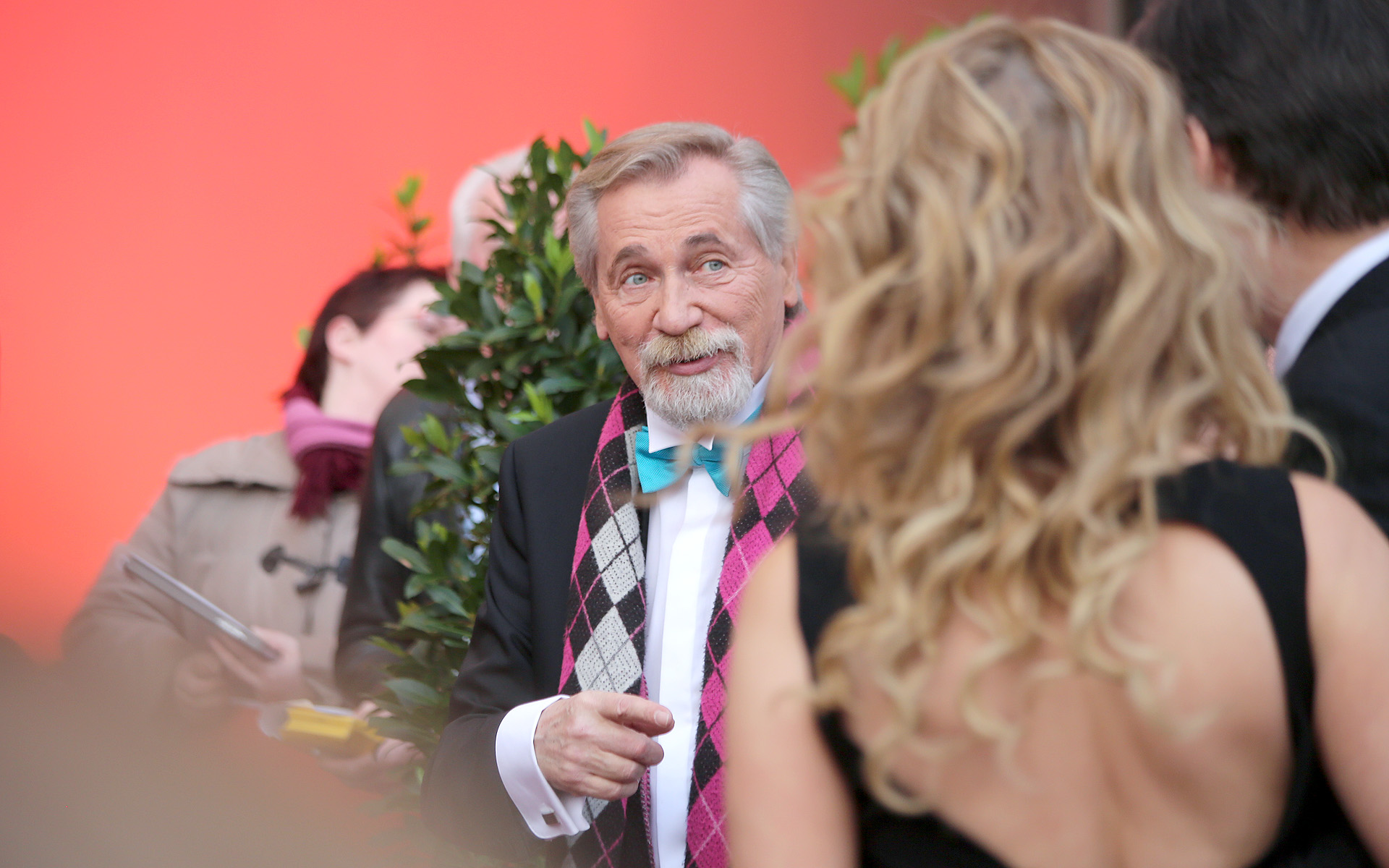 Peter Rapp at the Romy film awards (Hofburg Imperial Palace in Vienna)